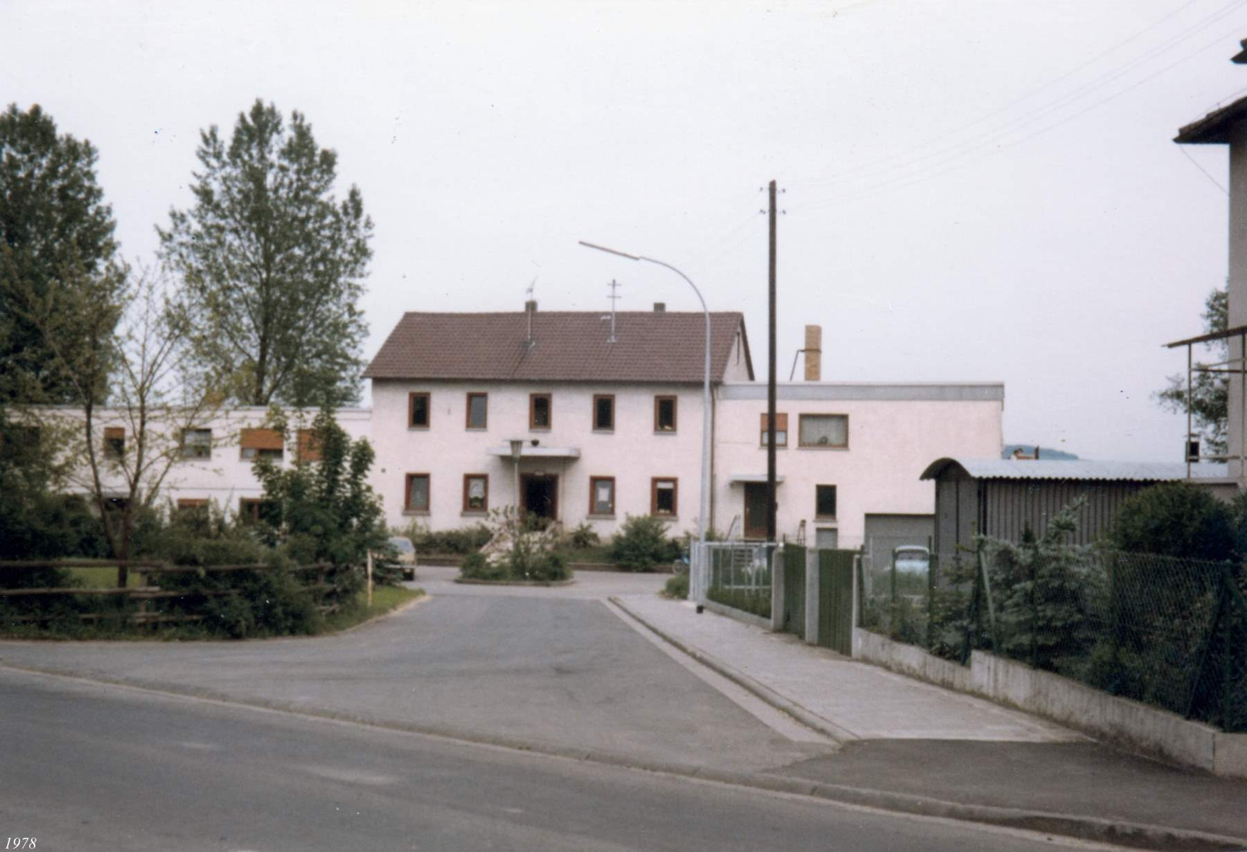 ehemalige Reichelsheimer Mühle, Stand 1978